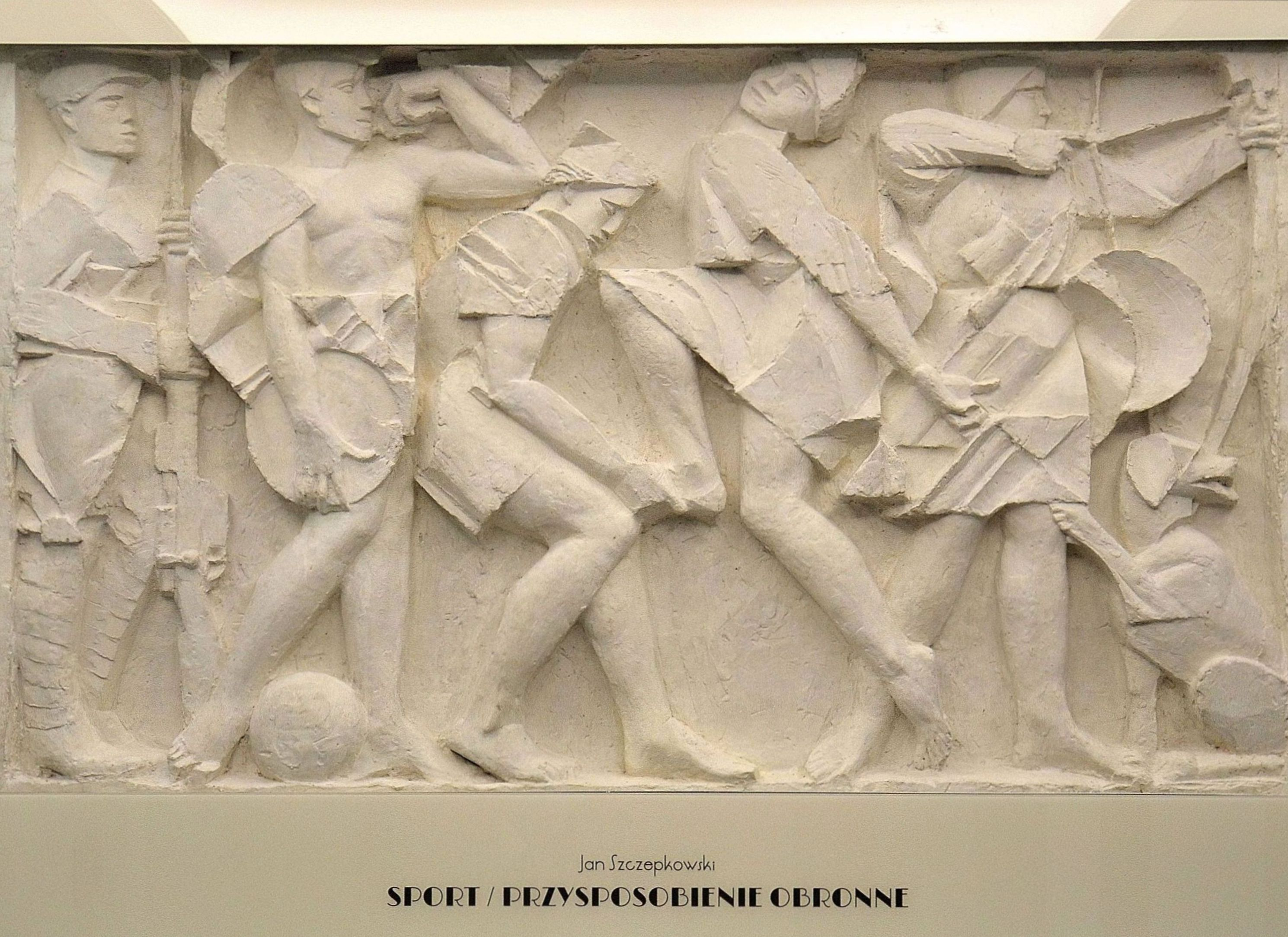 Bas-relief Sport/Civil defense training by Jan Szczepkowski in the Sejm